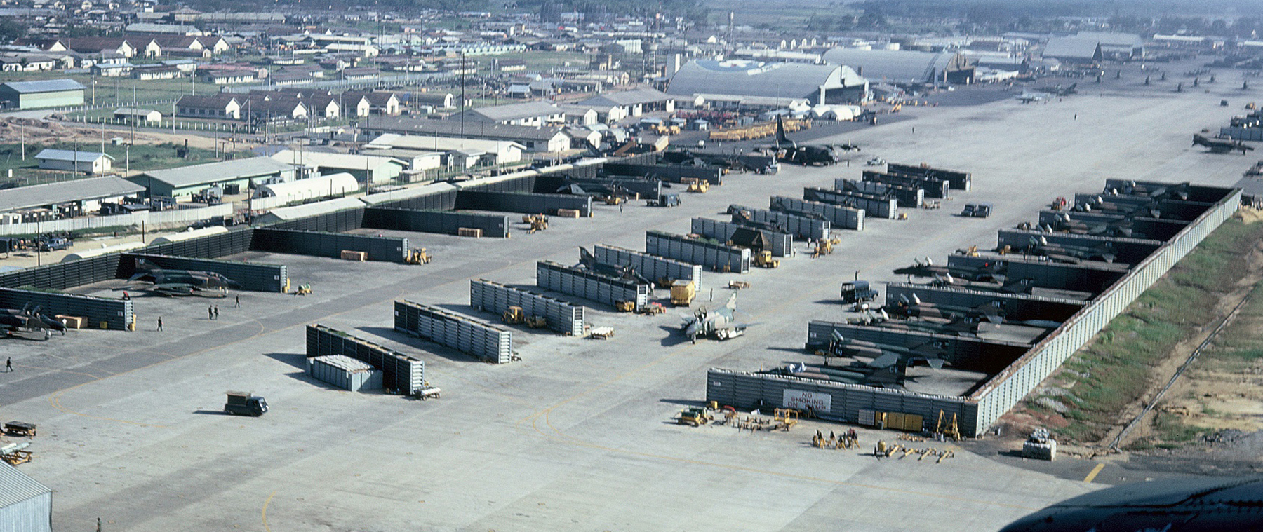 This picture of the Da Nang ramp shows F-4 Phantoms of the 366th TFW, the "Gunfighters". Revetments, like these at Da Nang AB, provided some protection against mortar and rocket attacks.